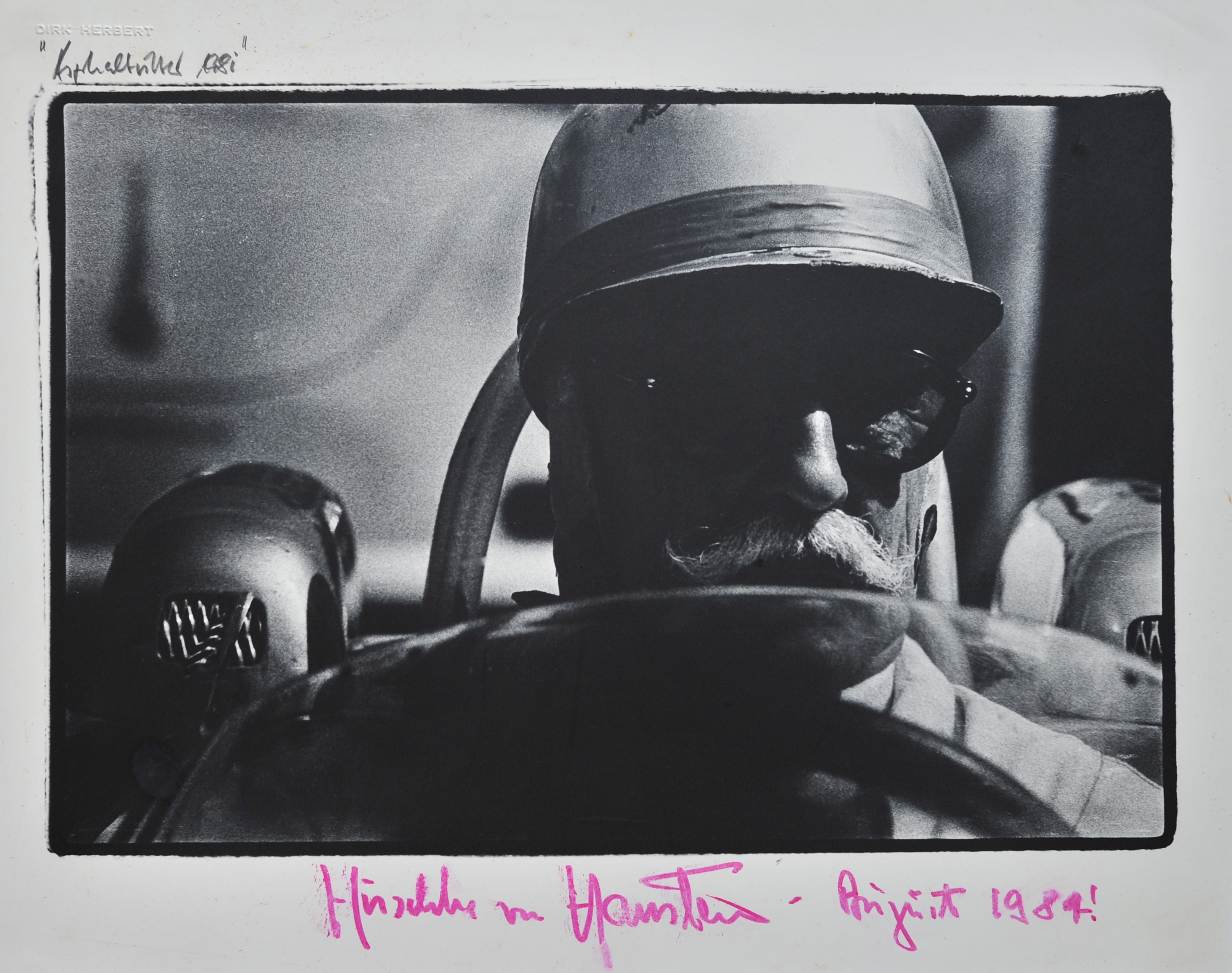 Huschke v. Hanstein in Porsche F1 Porsche Anniversary 1981